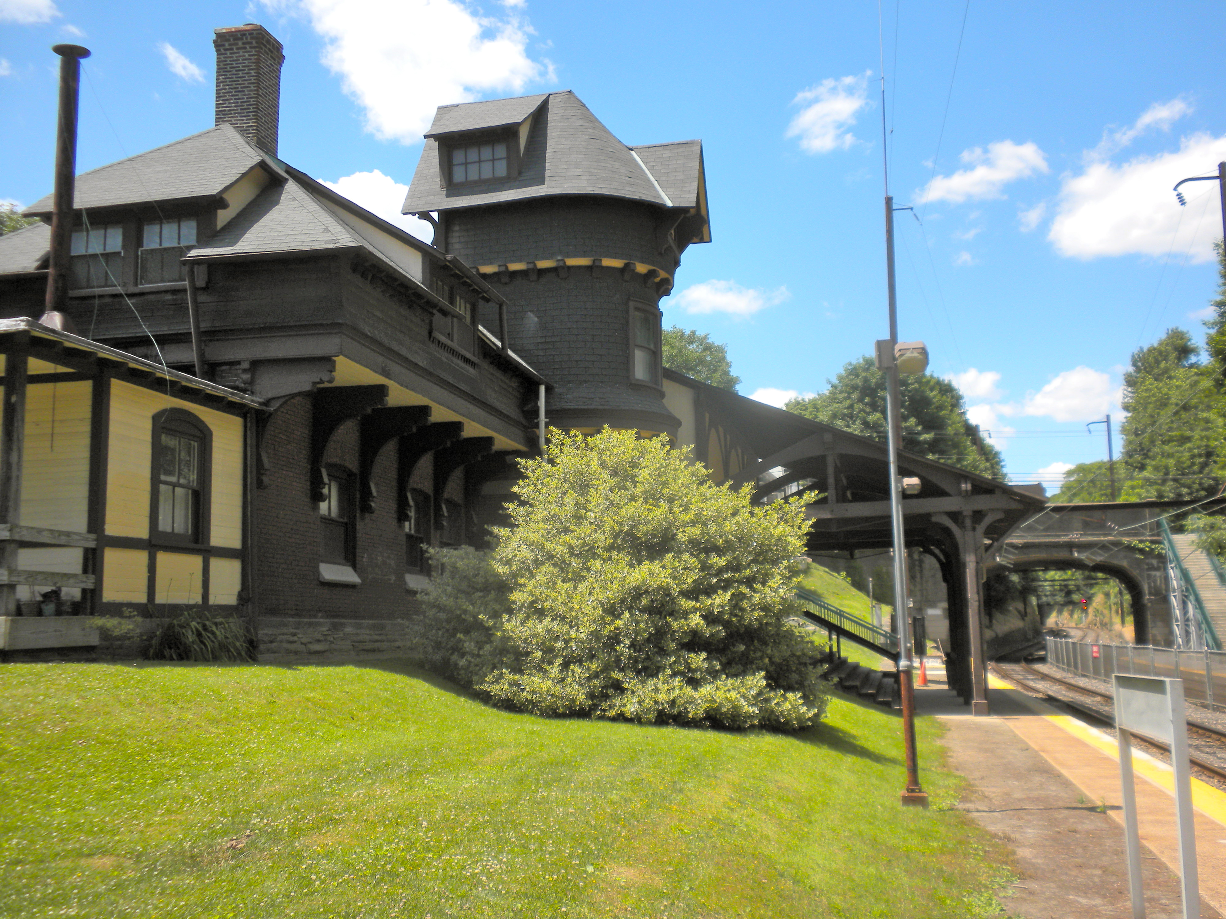 Graver's Lane Station on NRHP since November 7, 1977. At Graver's Lane and former Reading Railroad line near Anderson Street in Chestnut Hill neighborhood of NW Philadelphia. Now a SEPTA Station known simply as GRAVERS